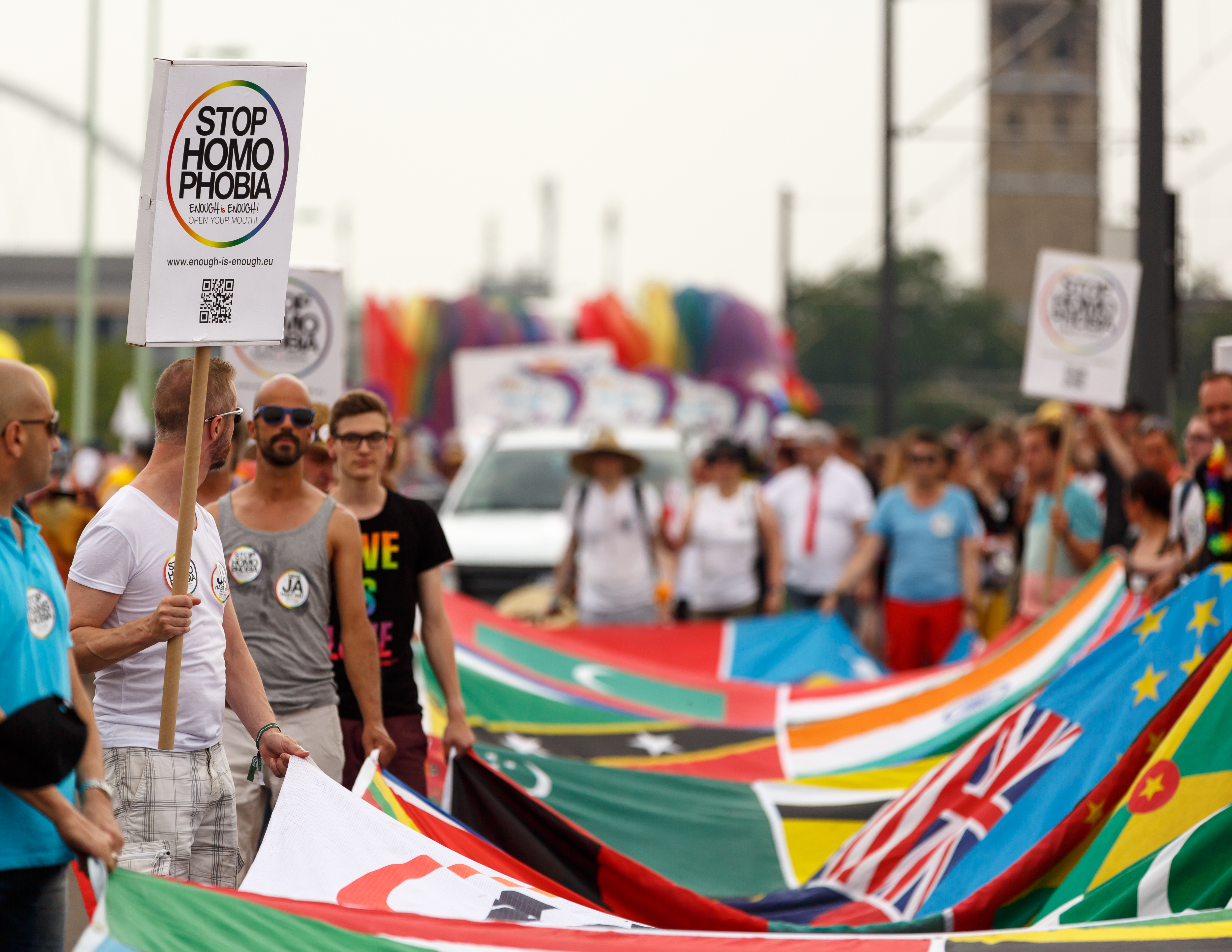 Cologne, Germany: LGBT activists at Cologne Pride Parade 2015 carrying a banner with the flags of 70 countries where homosexuality is illegal (shallow DoF intentionally to focus on STOP HOMOPHOBIA slogan)